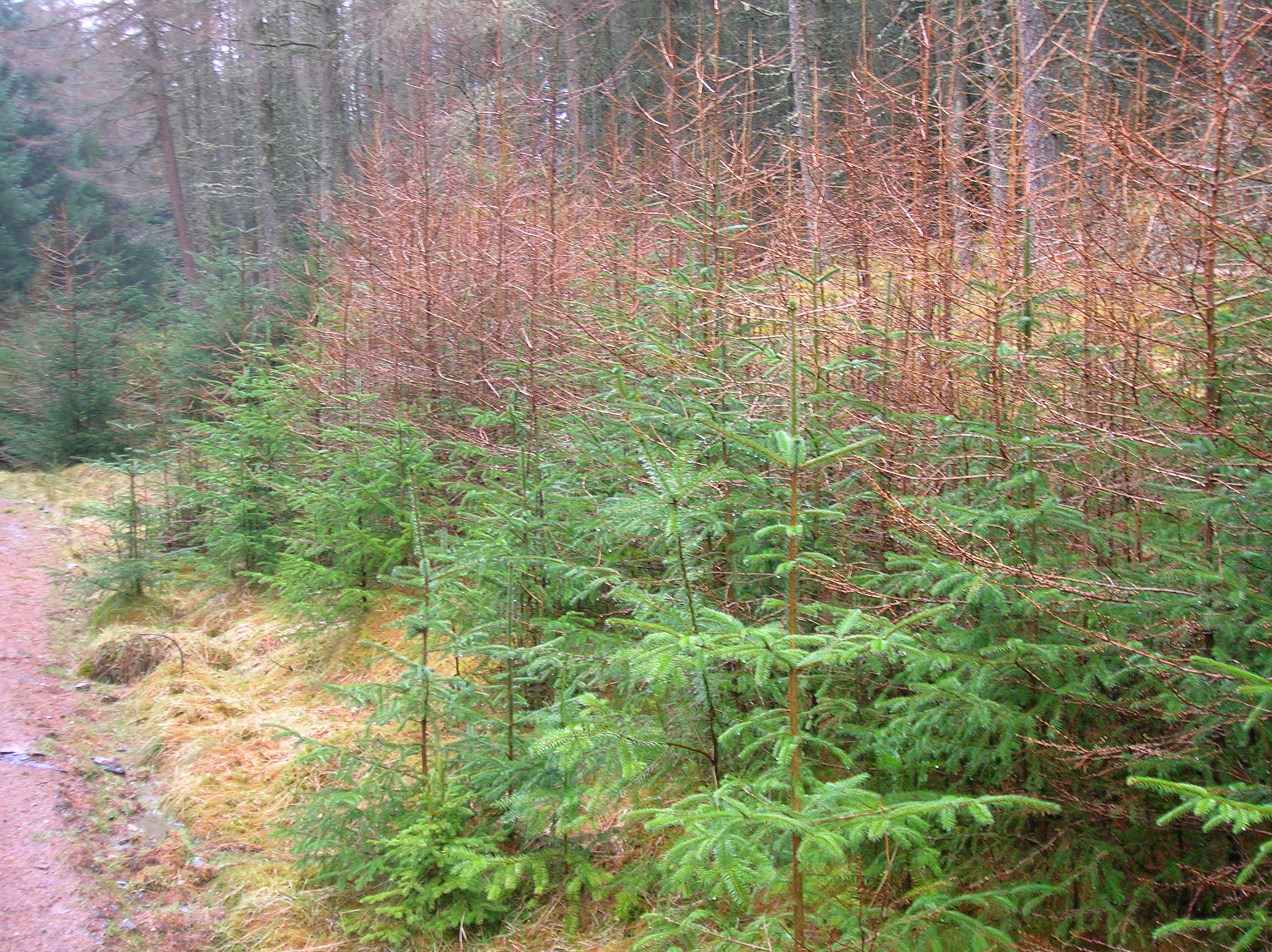 Self-seeded Sitka Spruce Picea sitchensis (green) and Japanese Larch Larix kaempferi (red-brown) at Kindrogan woods, Perth & Kinross, Scotland